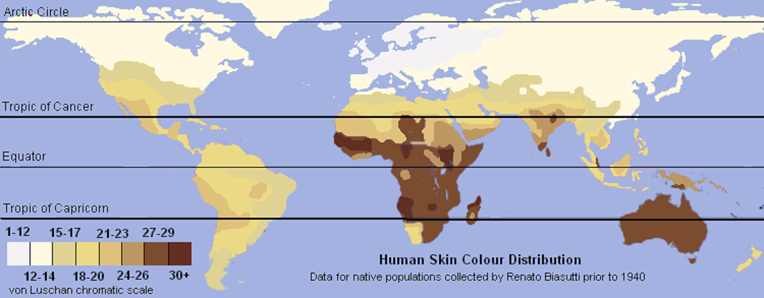 See Summary